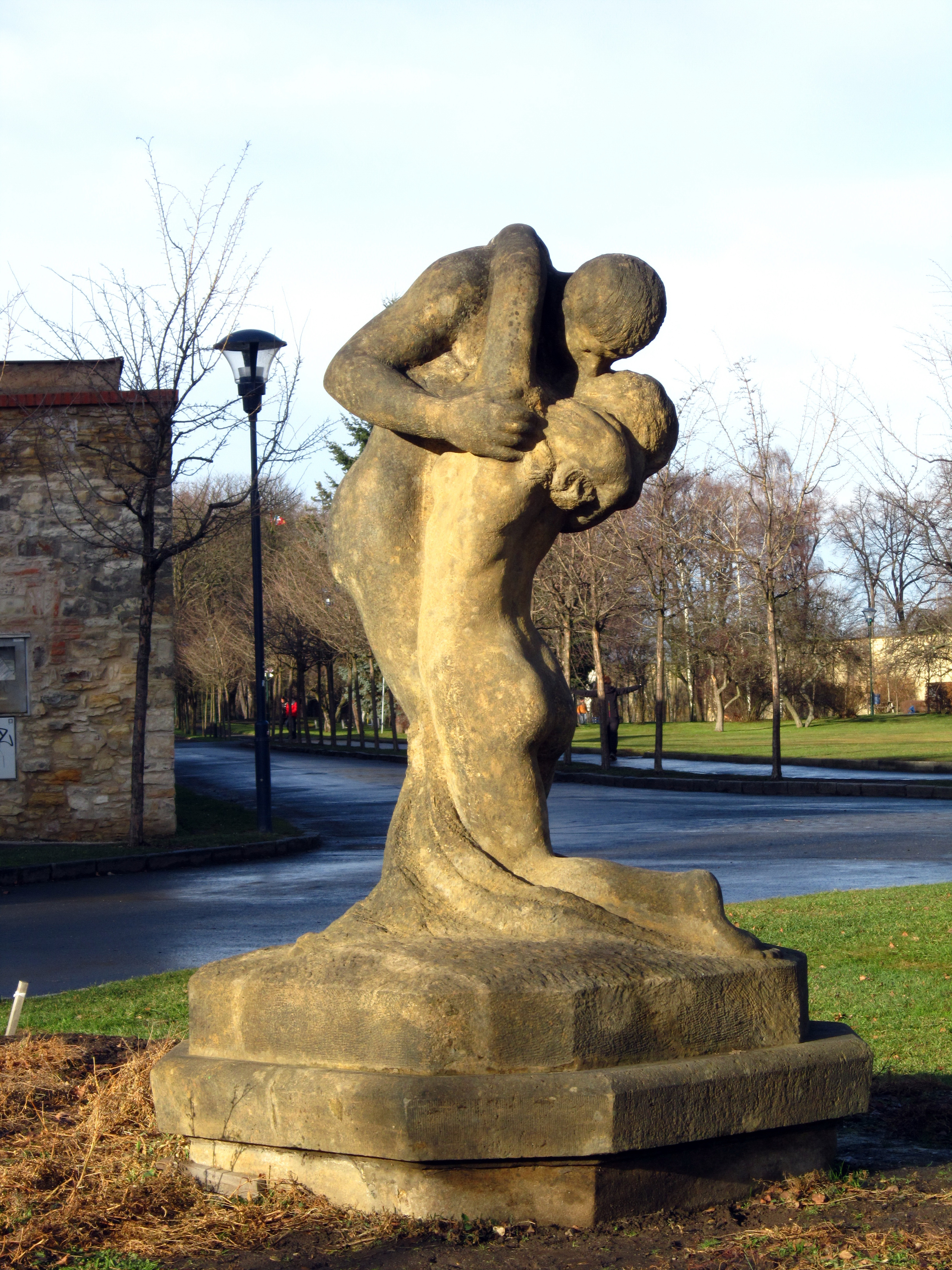 Josef Mařatka (1874–1937) Alternative names Josef MaratkaDescription sculptor and educatorDate of birth/death 21 May 1874 20 April 1937 Location of birth/death Prague PragueAuthority control : Q12026389 VIAF: 30338785 ISNI: 0000 0000 6676 2172 ULAN: 500121688 LCCN: n88212911 Open Library: OL6178940A WorldCat creator QS:P170,Q12026389 Polibek